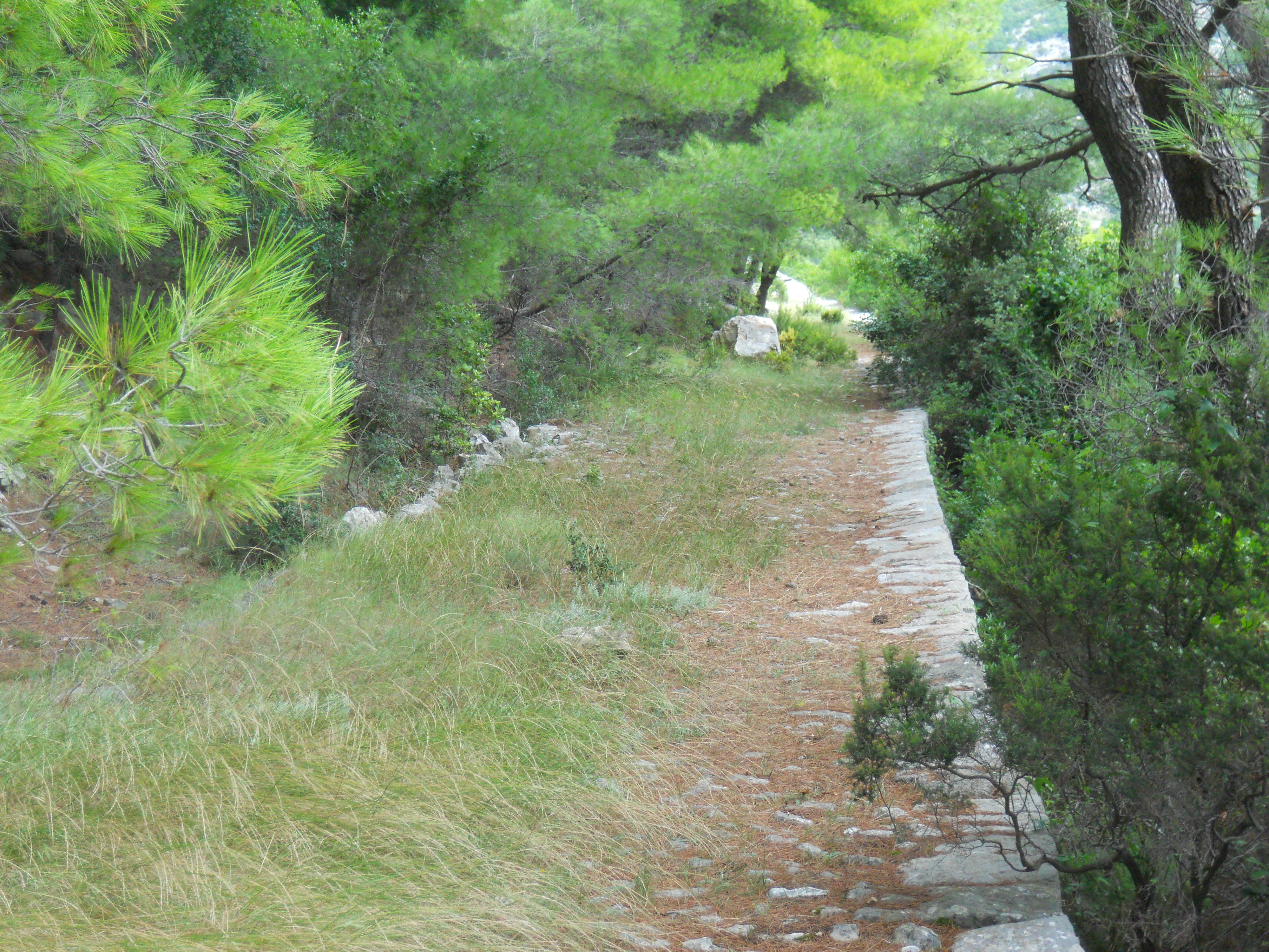 Part of the ancient stone road connecting Babino Polje to Sobra